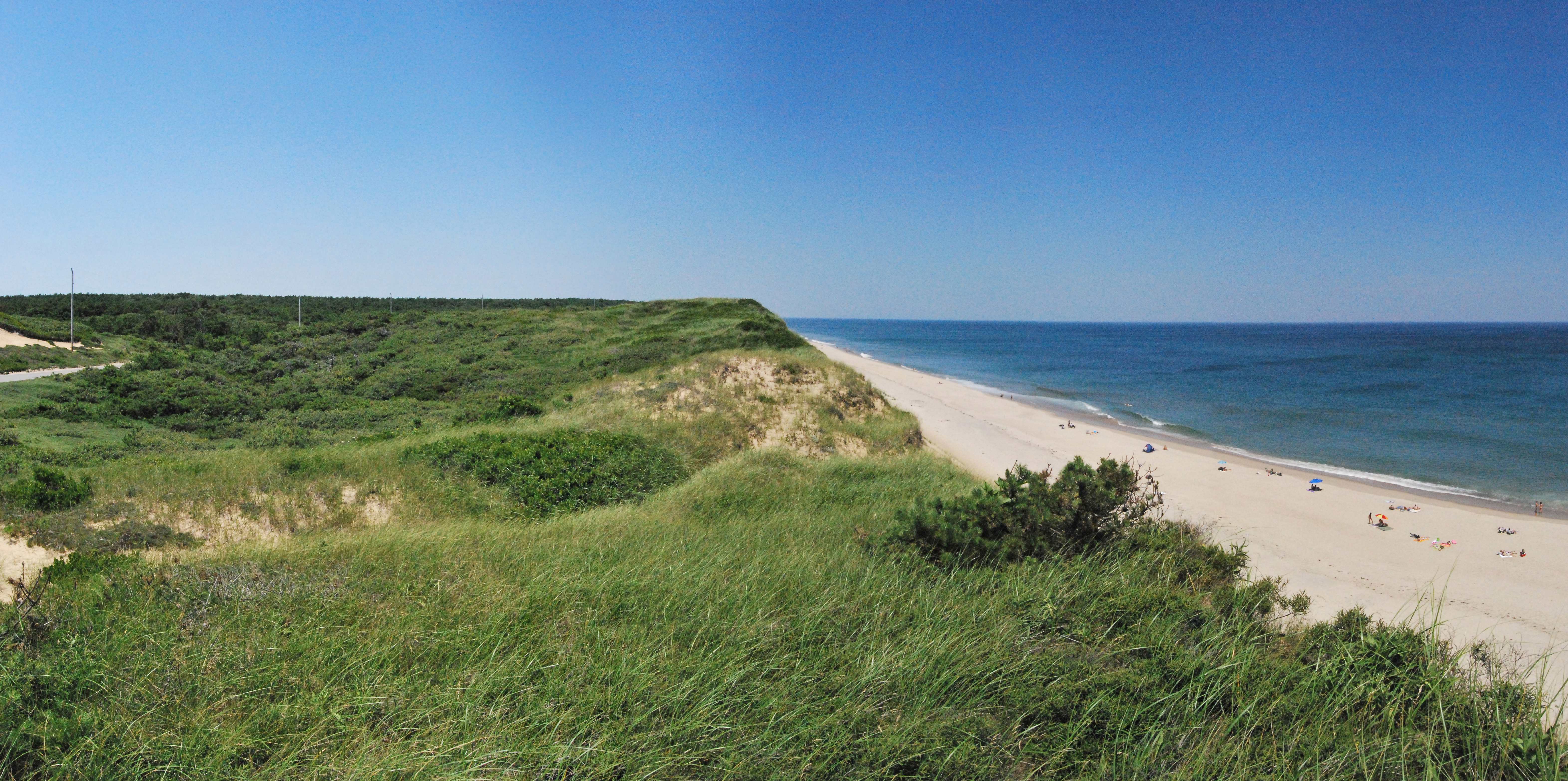 Panoramic view (six stitched photographs) of White Crest Beach on the Cape Cod National Seashore in Wellfleet, Massachusetts (location is on edge of dune cliff, about 150 feet above tourist beach)